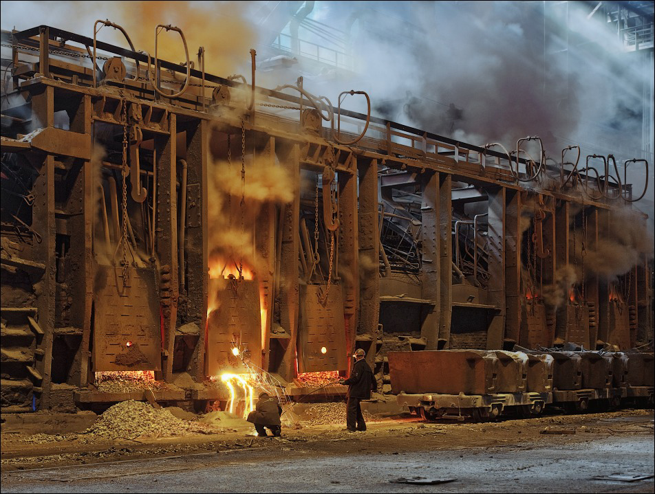 Temperature measurement of the Martin-Siemens converter at the ArcelorMittal plant in Kryvyi Rih.